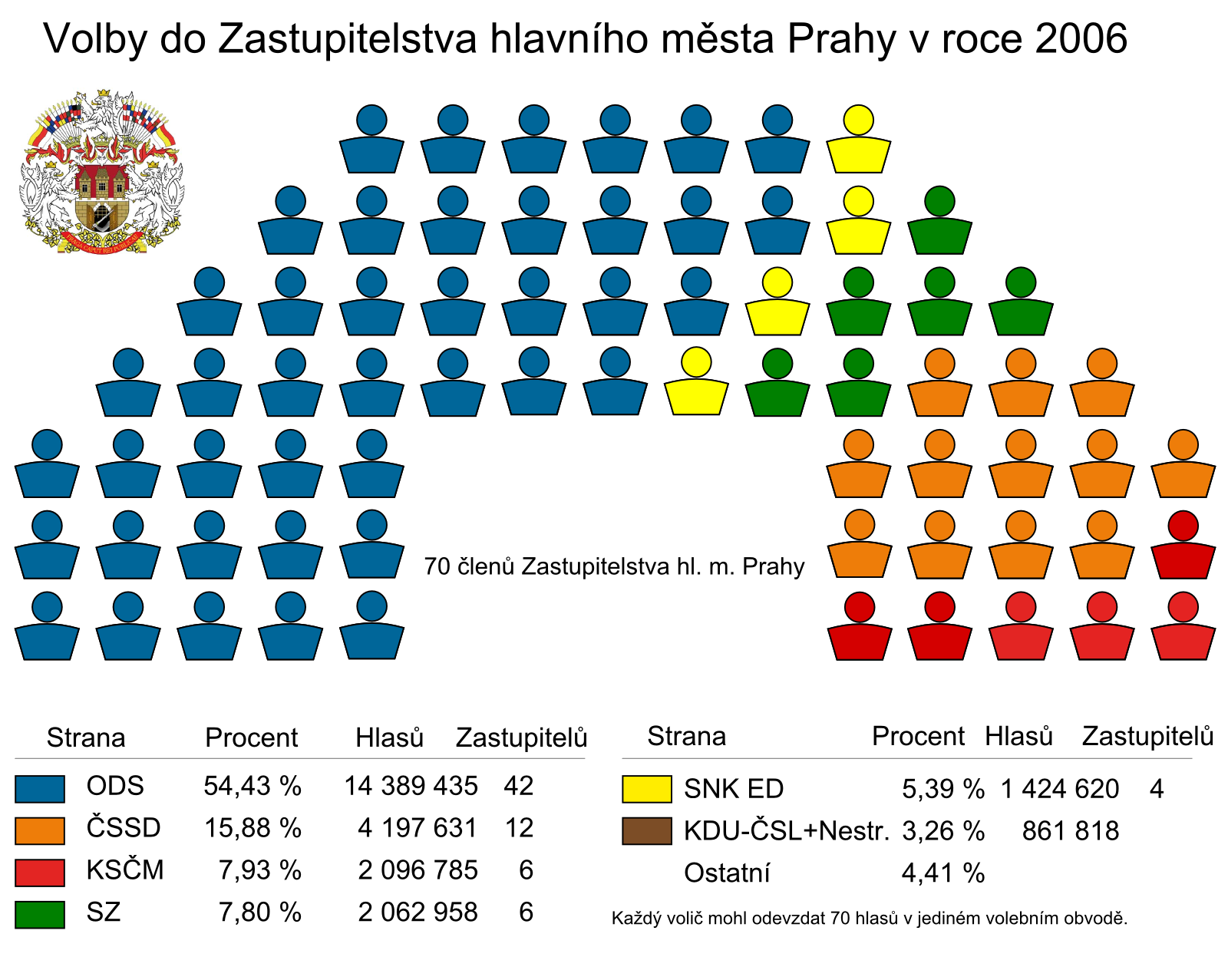 Results of 2006 municipal elections in Prague